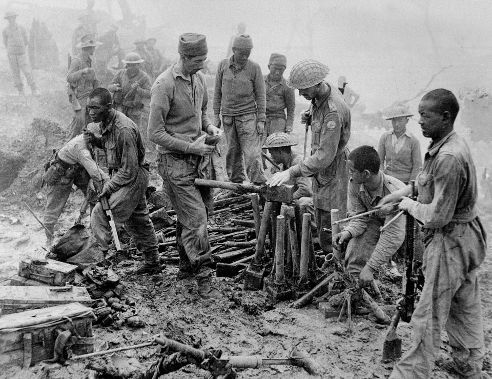 'Scraggy' was the British nickname for one of the hills of the 5,000 foot-high Shenam Saddle which was the scene of intense fighting during the Japanese drive along the Patel road towards Imphal in April 1944. The position was a labyrinth of bunkers; trees were reduced to shattered trunks and the hillsides turned into barren wastes by artillery fire. The result was a field of battle reminiscent of the worst fighting on the Somme during World War One.